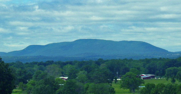 Photographed by Daniel Case 2006-06-10 from the eastbound lanes of I-84 near Fishkill.